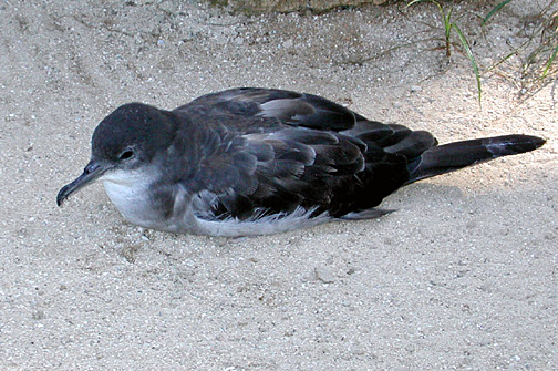 Puffinus pacificus. Image provenant de wikipédia anglophone. Taken from NPS Kaloko-Honokohau National Historical Park. Link is dead but image is also in USFWS document (pg viii) labelled "NPS photo" Photo by Bryan Harry Wedge-tailed Shearwater